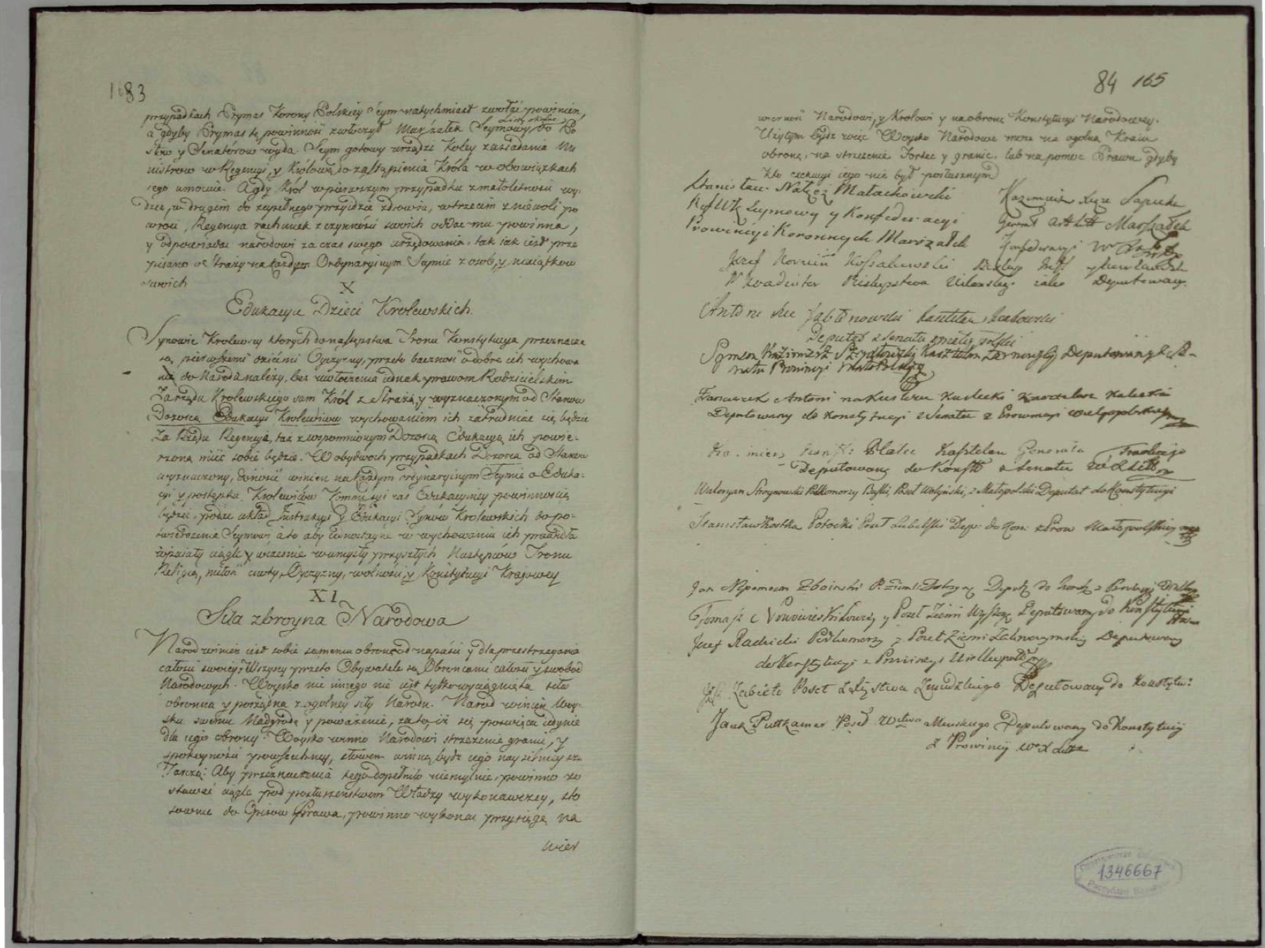 Oryginal manuscript of the Constitution of the 3rd May 1791 - last pages